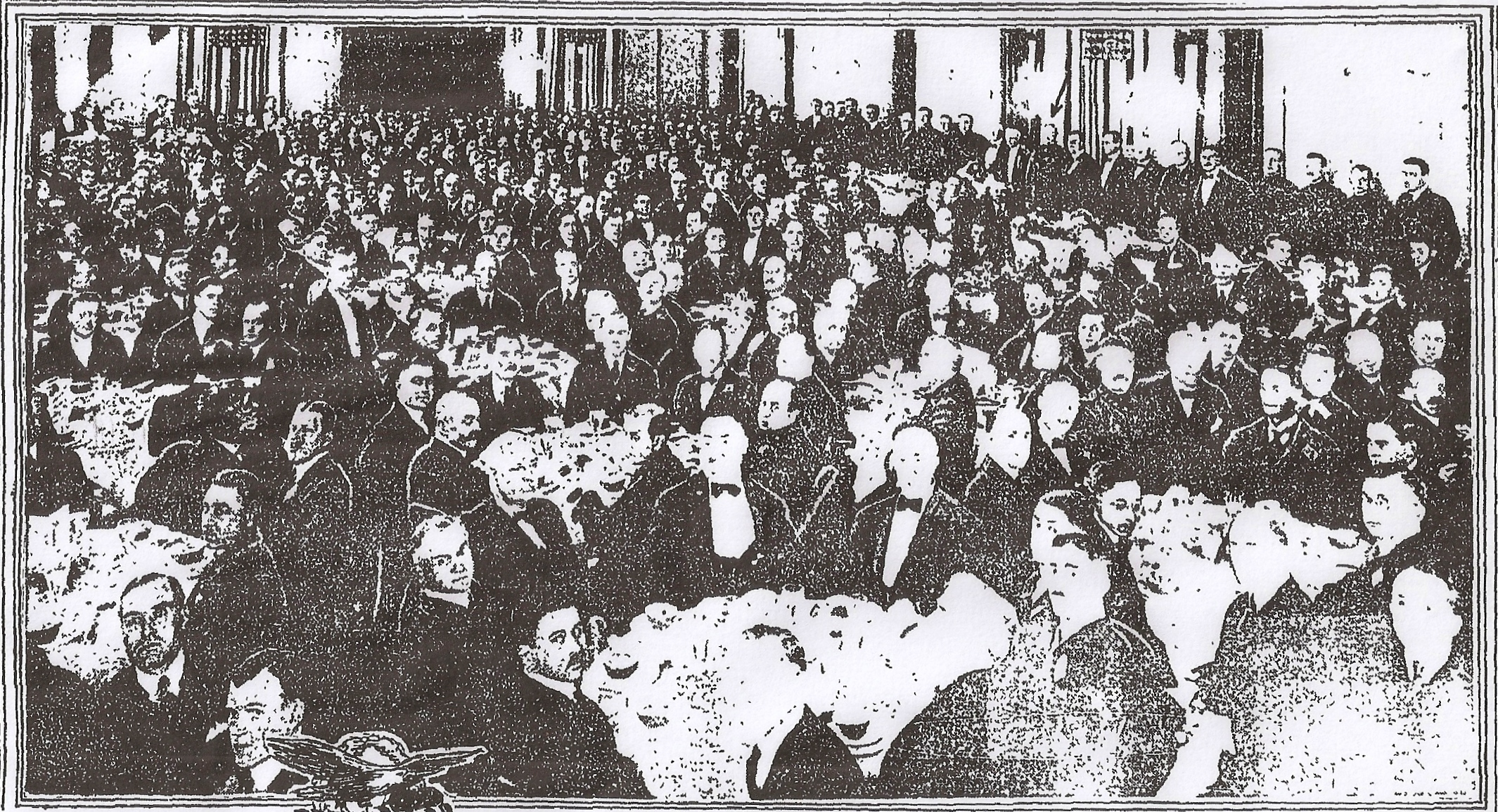 Article=Palm Court (Alexandria Hotel) Description=Photograph of Banquet held in honor of Gen. John J. Pershing at the Palm Court in the Alexandria Hotel, Los Angeles, California, Jan. 1920 Source=Los Angeles Times, Jan. 27, 1920 Published in the United States before 1923.